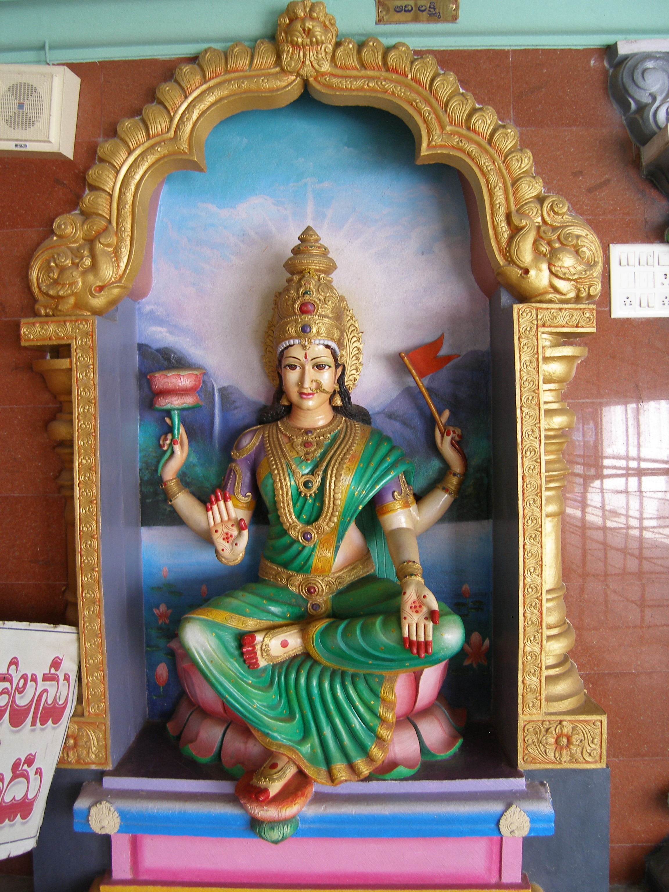 Adilaxmi at Narayana Tirumala.